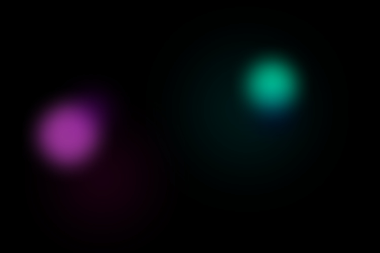 They’re Made Out of Meat (2009) is a piece of digital art created and copylefted by Alexander S. Peak and inspired by the Terry Bisson short story, "They're Made Out of Meat."